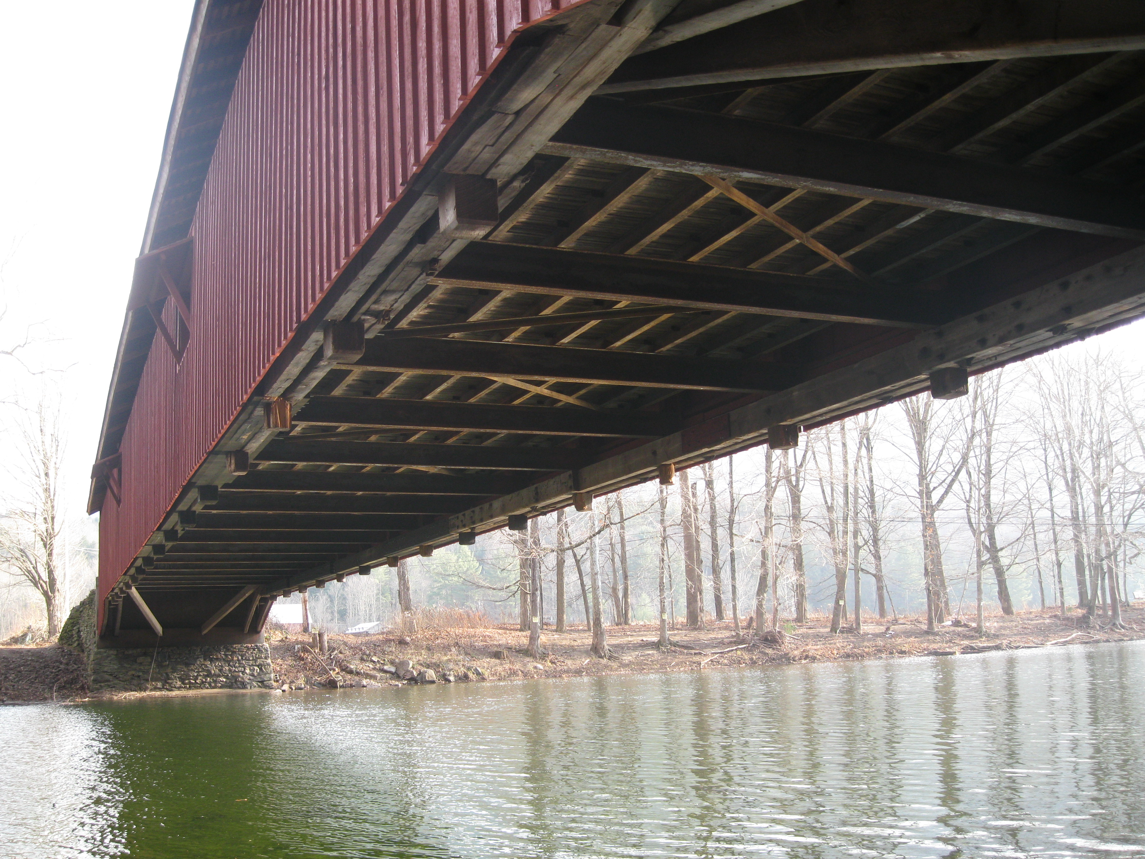 Bottom and north side of the Hillsgrove Covered Bridge over Loyalsock Creek in Hillsgrove Township, Sullivan County, Pennsylvania in the United States. Beams perpendicular to the long axis of the bridge are steel I-beams. View is looking east from the western abutment.